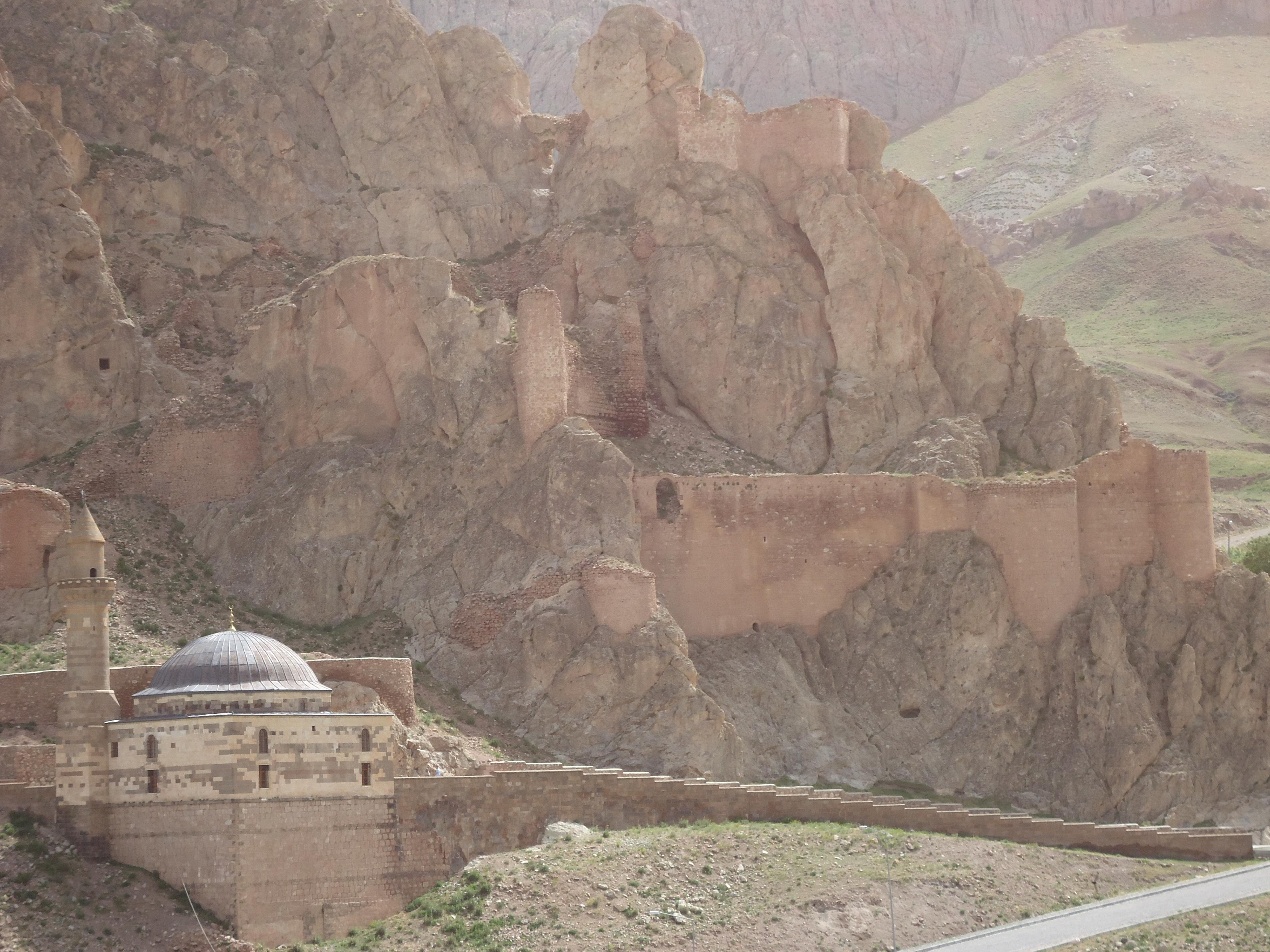 Arshakavan castle, Bayazet, the mosque is the Eski Bayezid Cami